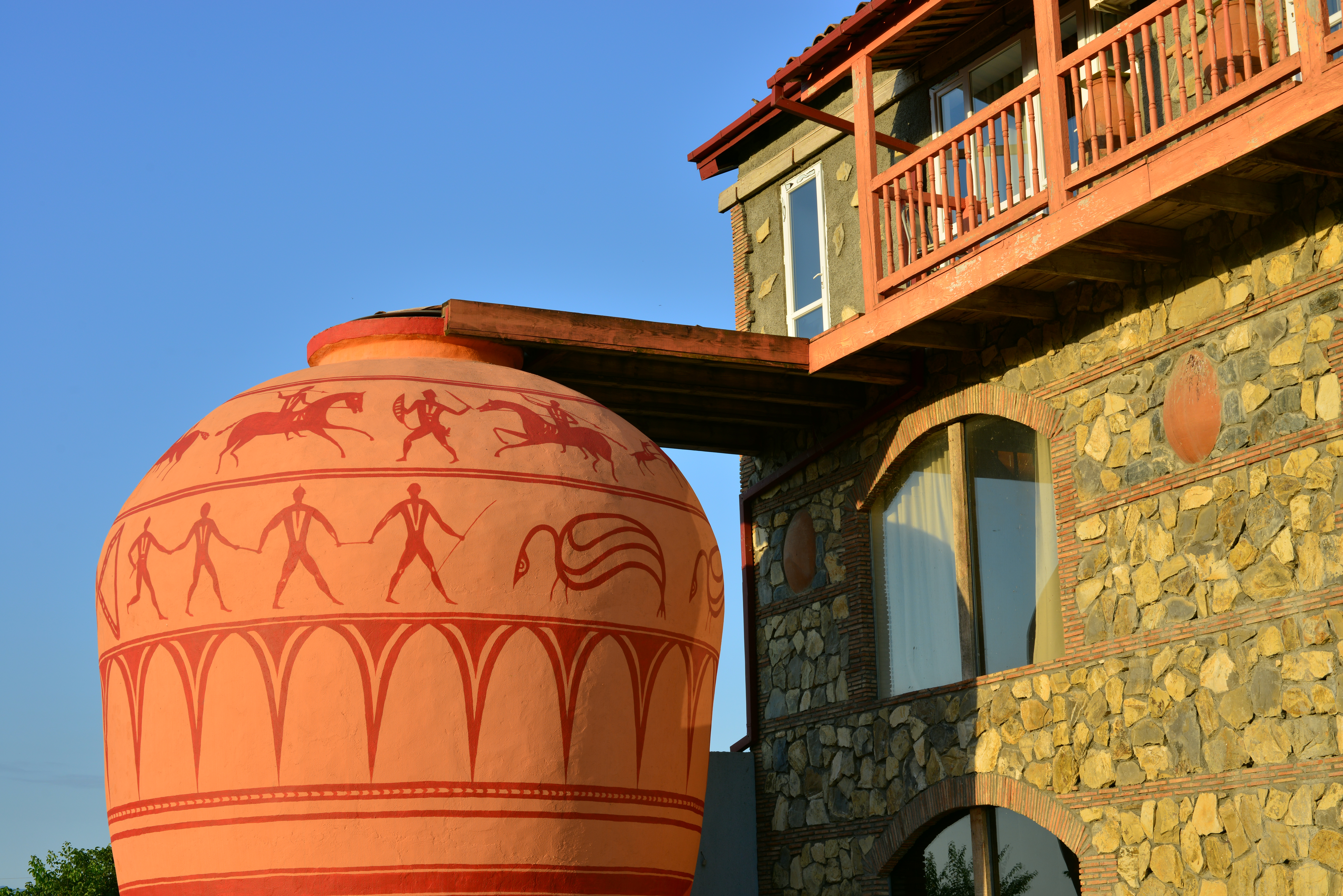 Twins Old Cellarr wine house in Village Napareuli ,Georgia